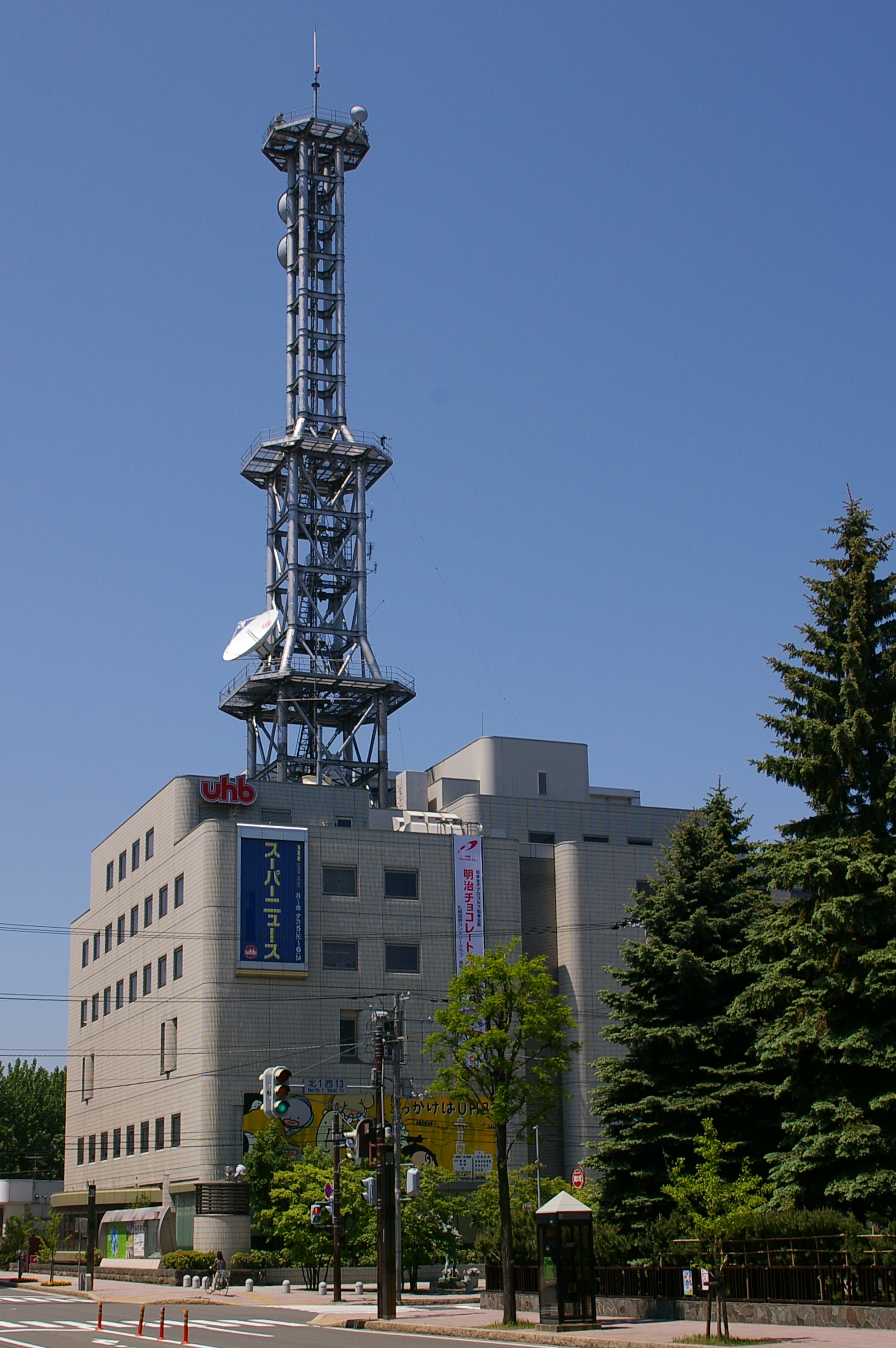 Photograph of the headquarters of Hokkaido Cultural Broadcasting Company in Chuo-ku, Sapporo, Hokkaido, Japan.